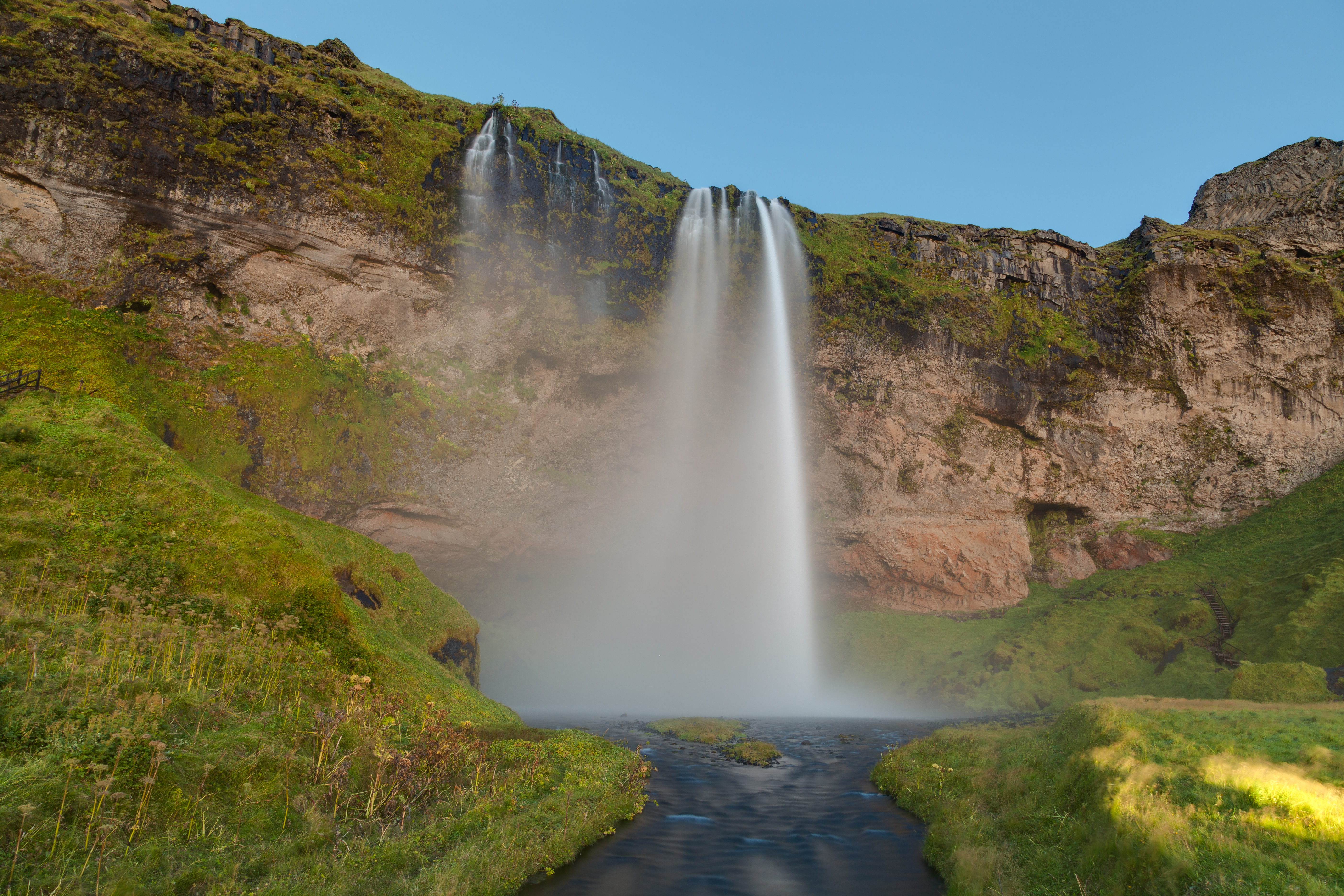 Seljalandsfoss, Suðurland, Iceland